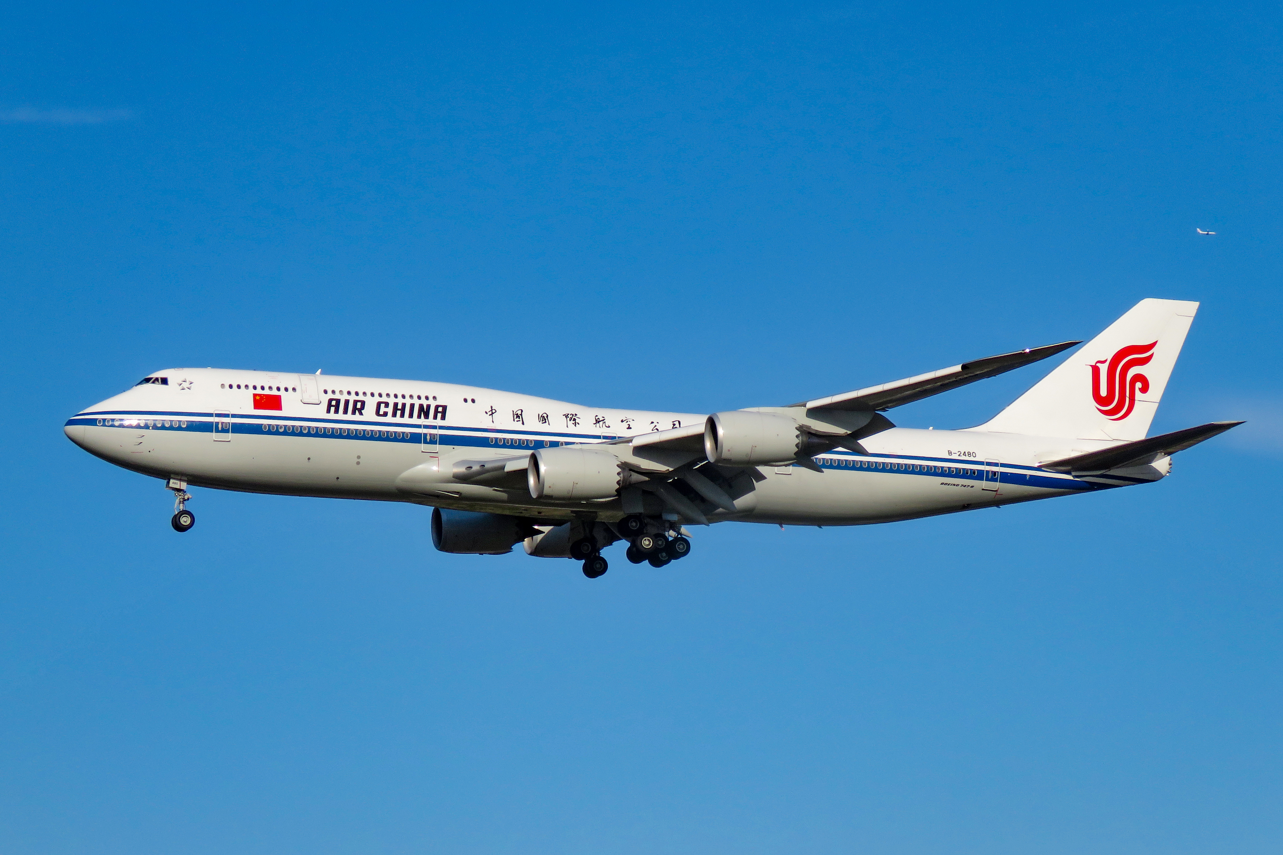 Air China 986 from San Francisco.